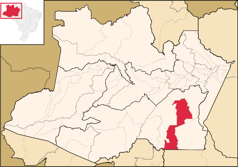 Localization of Novo Aripuanã in Amazonas state, Brazil.